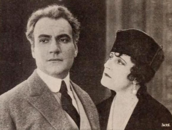 Still from the American drama film The Divine Sacrifice (1918) with Jean Angelo and Kitty Gordon, on page 23 of the February 9, 1918 Exhibitors Herald.